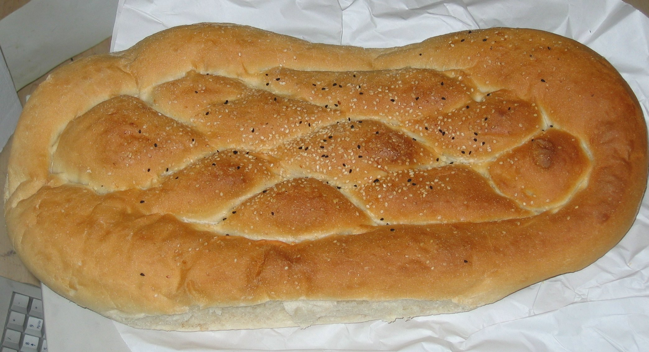 Pide bread from a Turkish delicatessan in London, UK